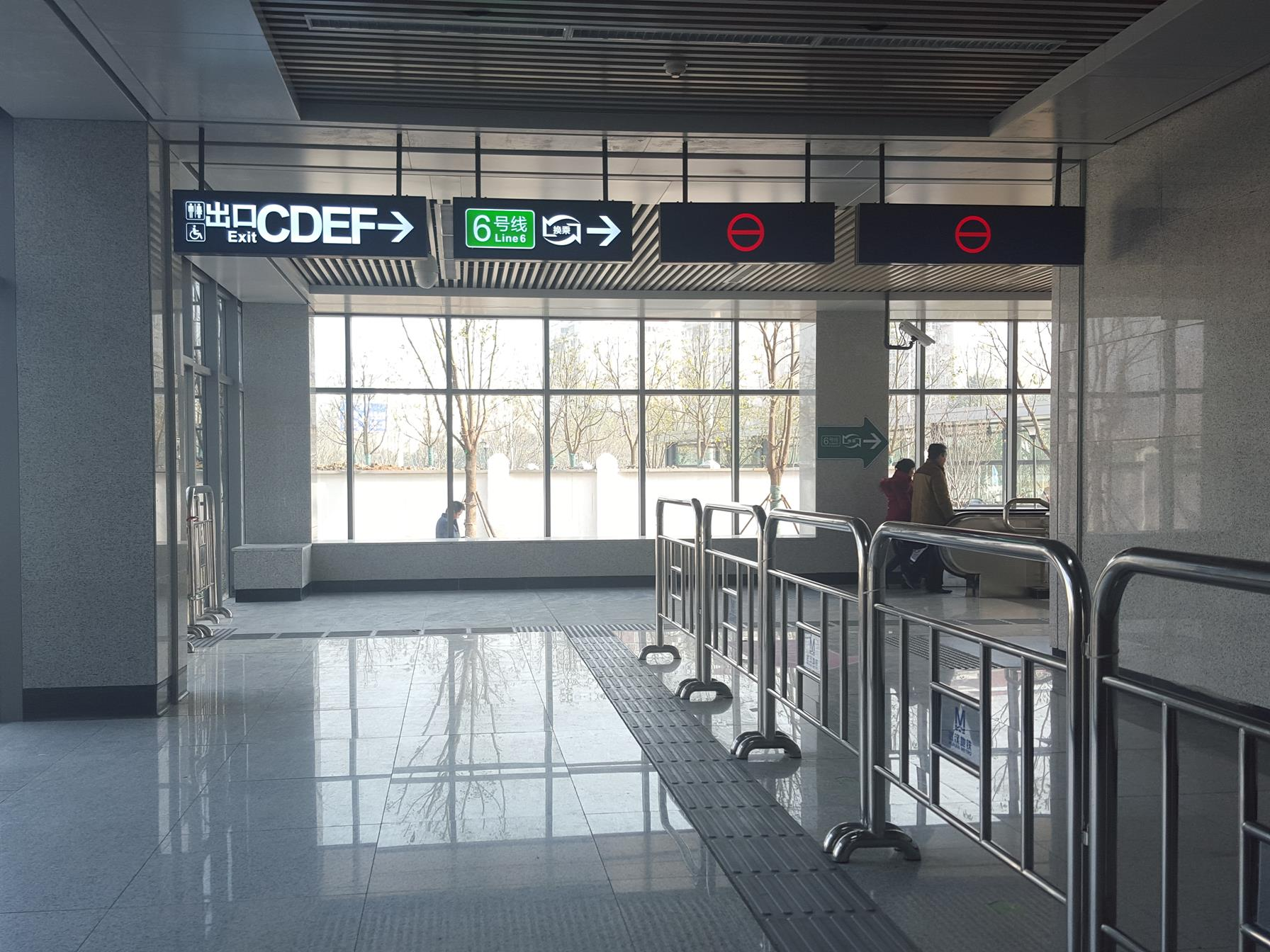 Transfer channel of Changqinghuayuan Station, Wuhan Metro